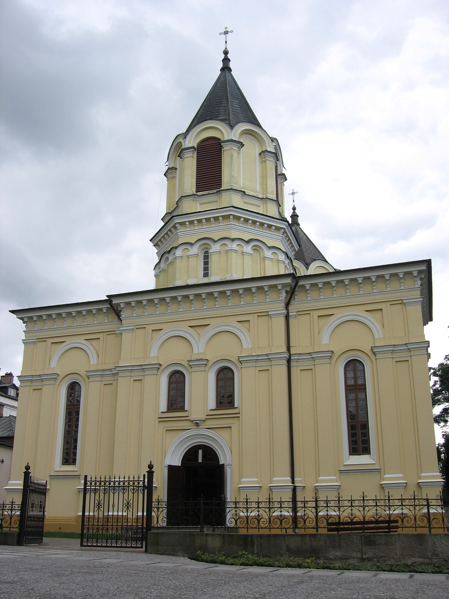 Assumption of Virgin Mary Church in Łomża.